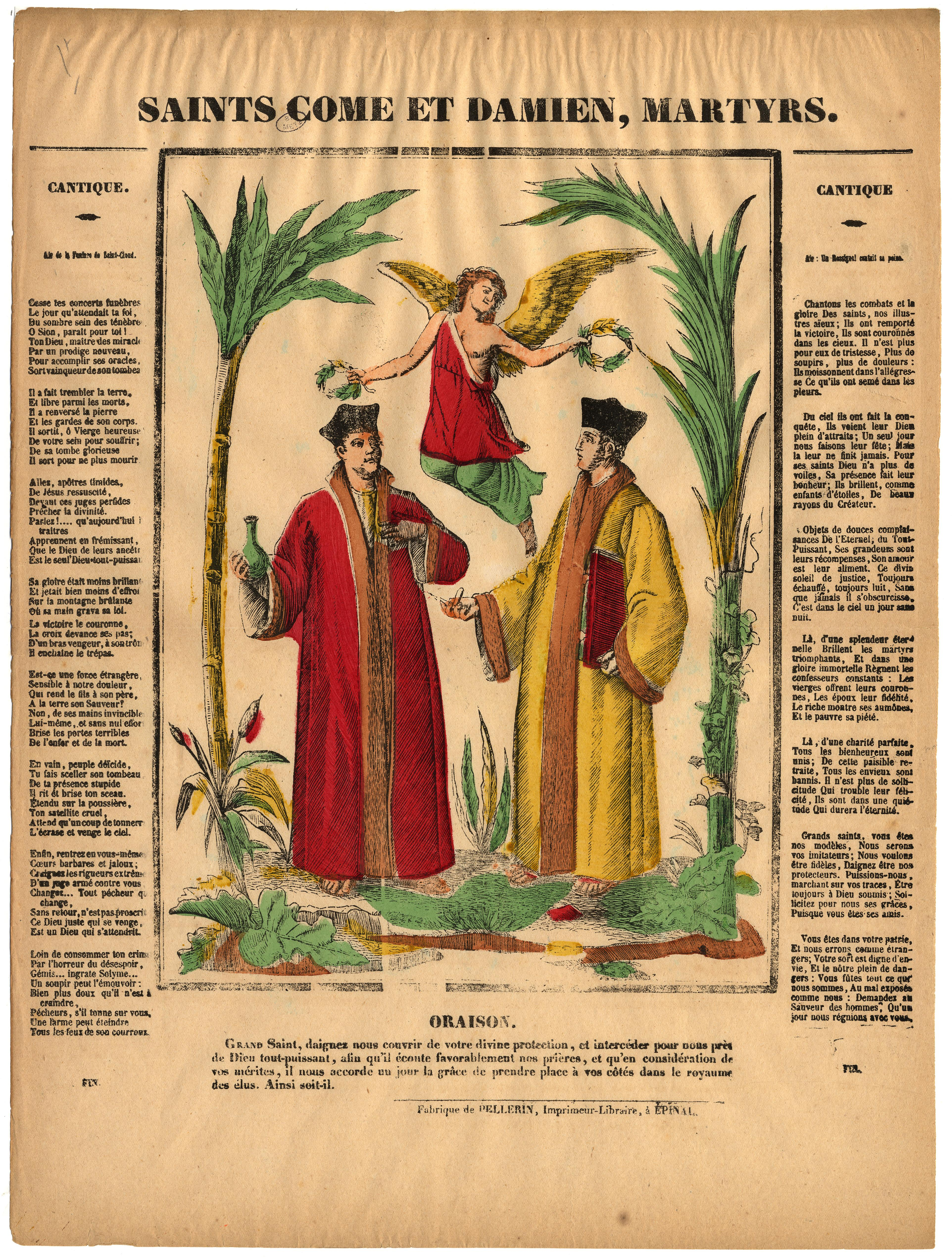 1 estampe en couleur, 315 x 420 mm, lithographie